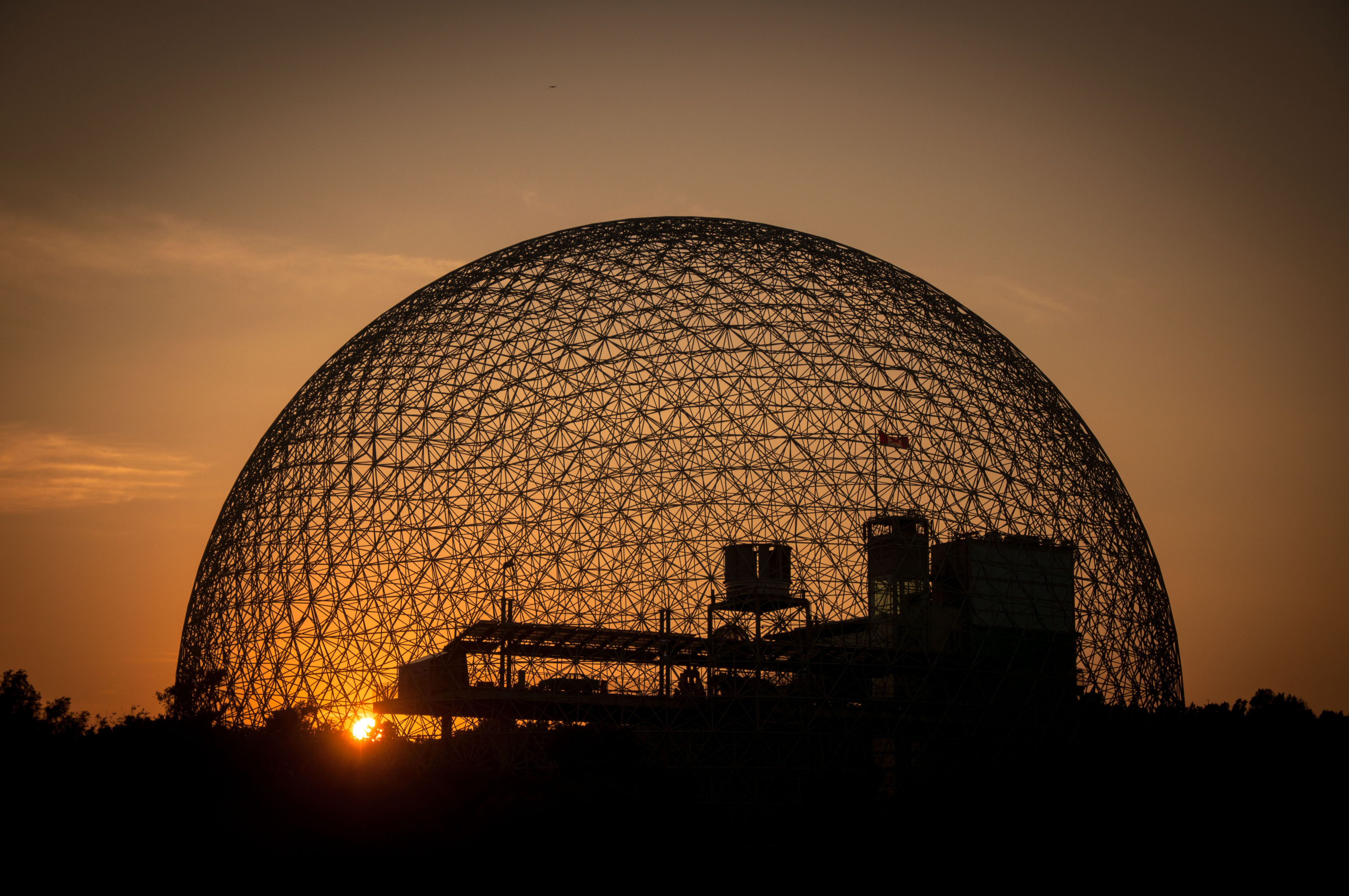 Beautiful sunset, Expo 67 United States Pavilion at Parc Jean-Drapeau, in Montreal, Canada.